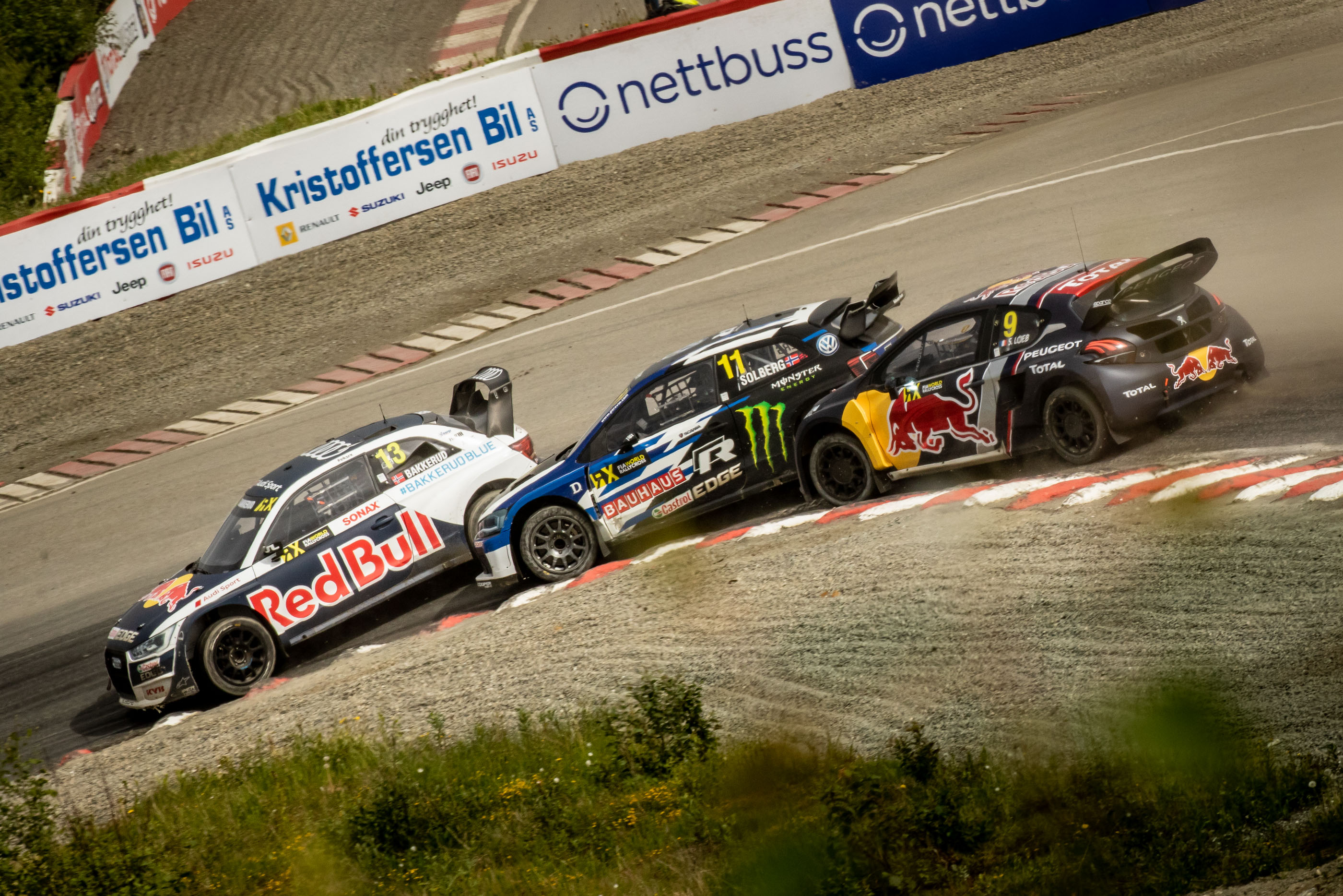 2018 FIA World Rallycross Championship // Round 5, Hell, Norway // Credit: EKS Audi Sport